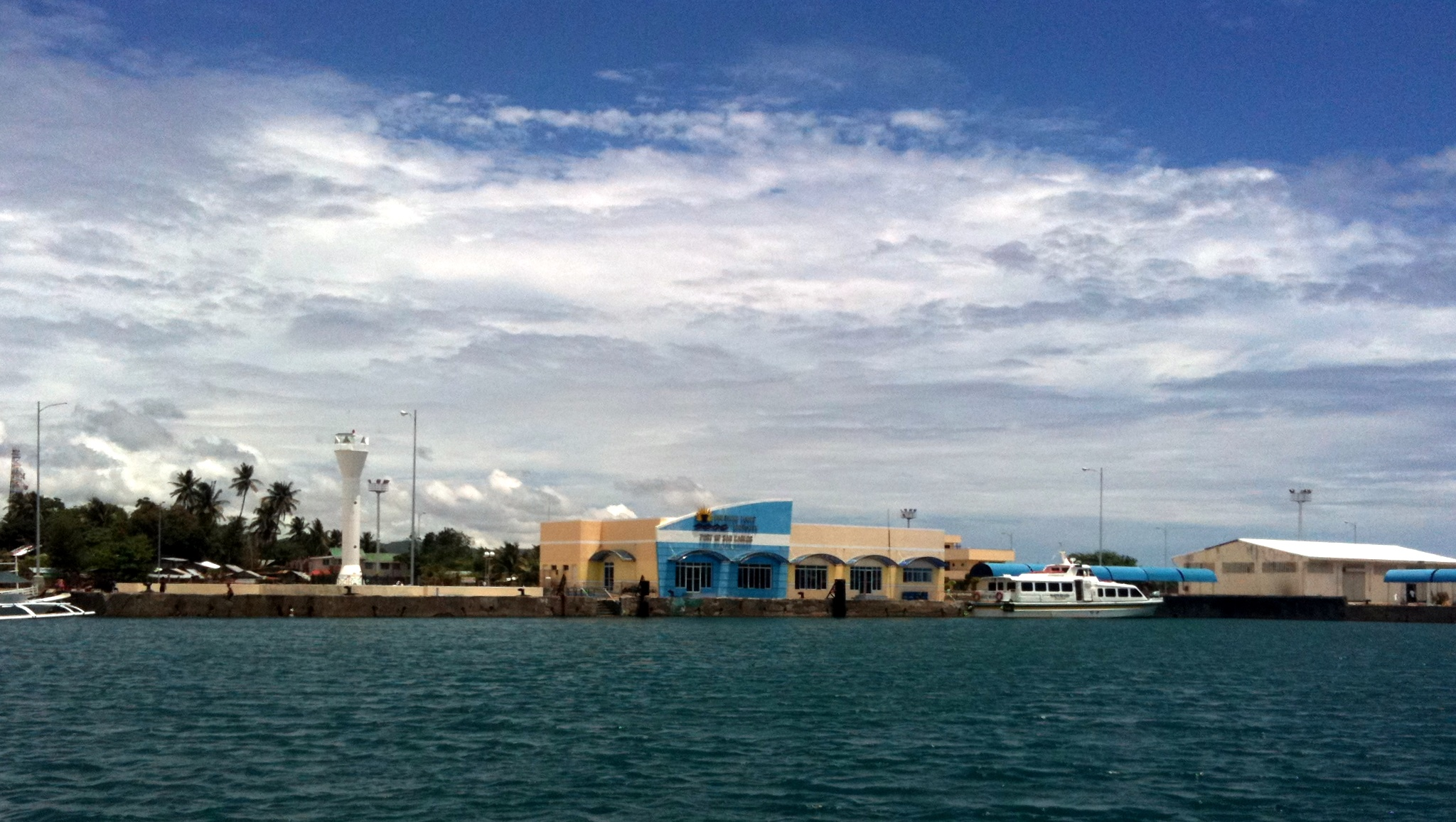 Port of San Carlos, Negros Occidental, Philippines